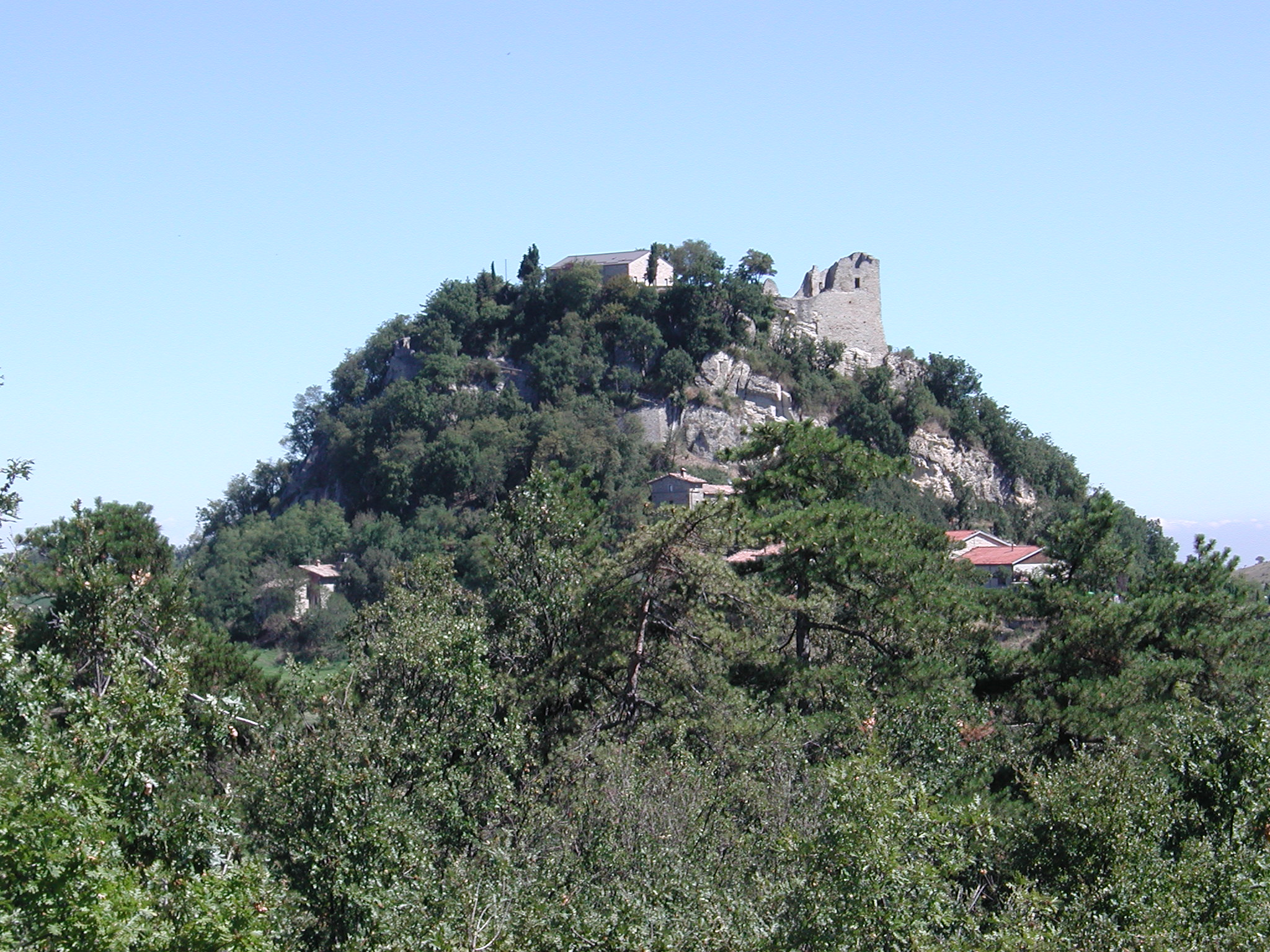 Castle of Canossa, Canossa, Italy